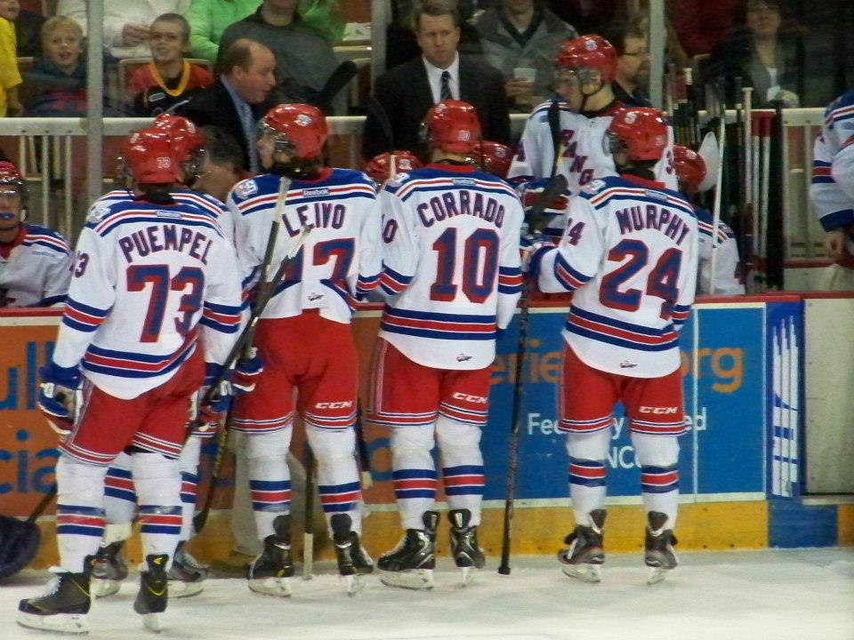 Some of the Rangers